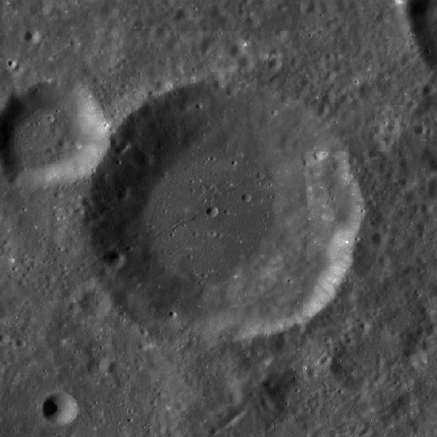 Geber crater, on the moon. Lunar Reconnaissance Orbiter Wide Angle Camera (WAC) mosaic.